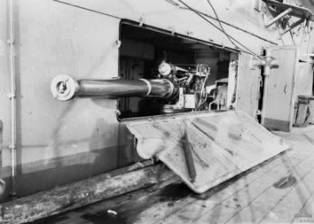 IWM caption : "Scotland, Firth of Forth. One of the 4 inch guns on the battle cruiser HMAS Australia. The ship originally carried eight 12 inch guns, 16 4 inch guns, four 3 pounders, five machine guns, and two 18 inch submerged torpedo tubes; she was the most heavily armed vessel (in terms of guns) ever to have served in the RAN." Comment : The gun is a BL 4 inch Mk VII.